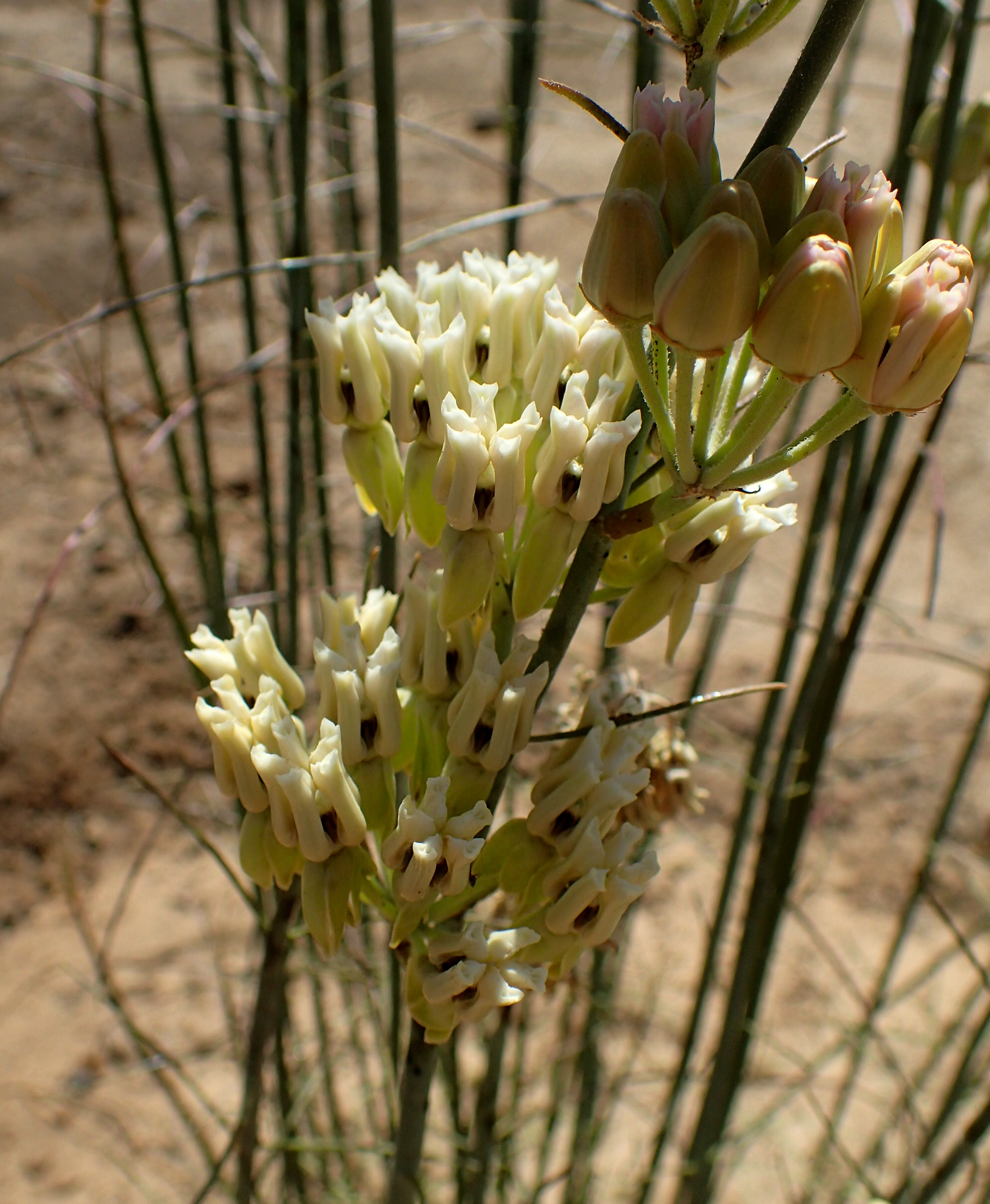 Asclepias subulata in Clovis Botanical Garden